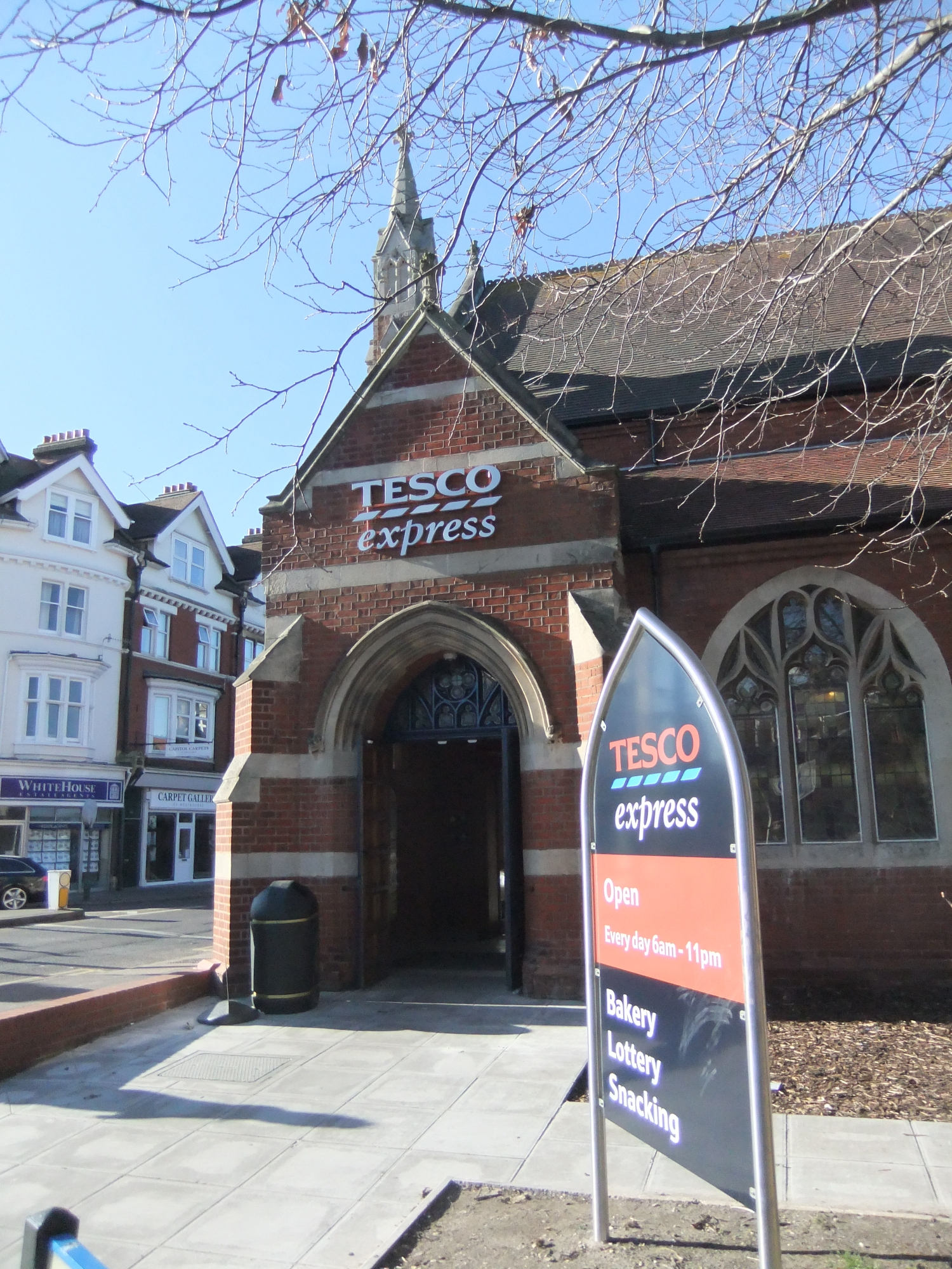 A Tesco store in the Westbourne area of Bournemouth, Dorset, United Kingdom